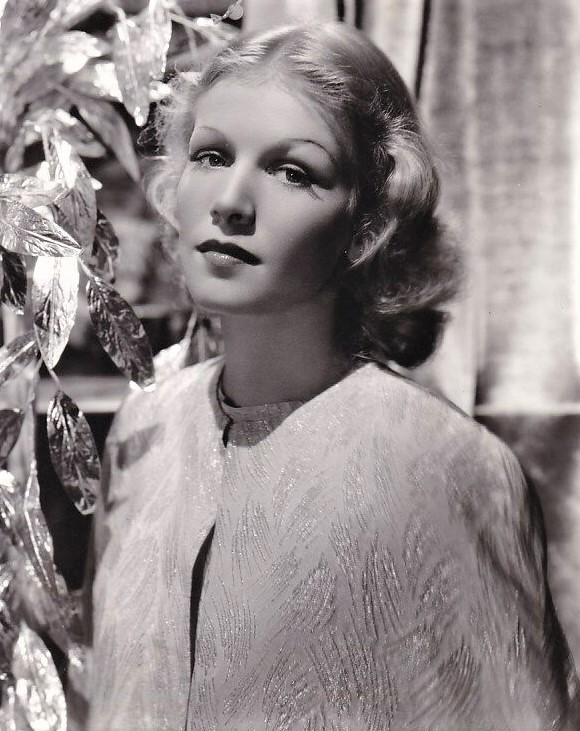 American actress Julie Haydon - publicity still (cropped)